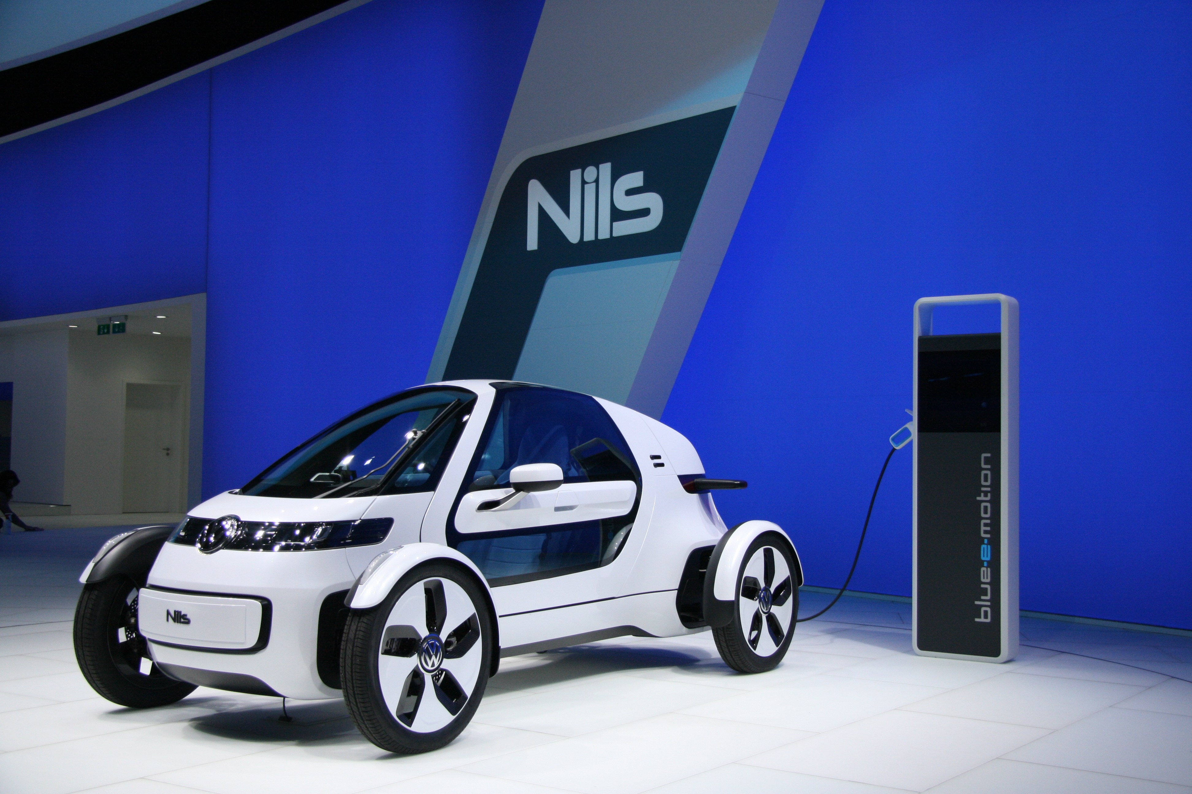 Volkswagen Nils at IAA 2011 with charging station.